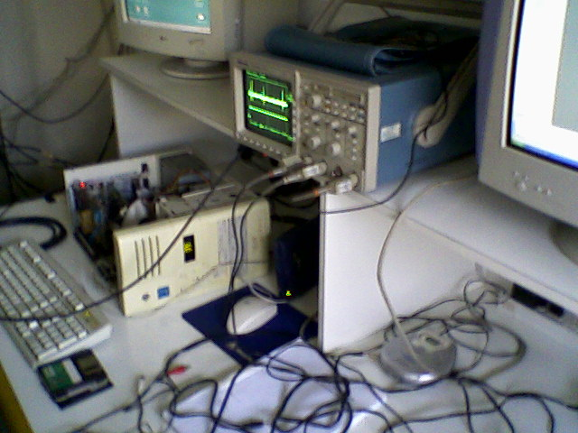 Real-time data acquisition and signal processing from the H1 neuron of the fly, at DipteraLab, Institute of Physics at São Carlos, University of São Paulo.